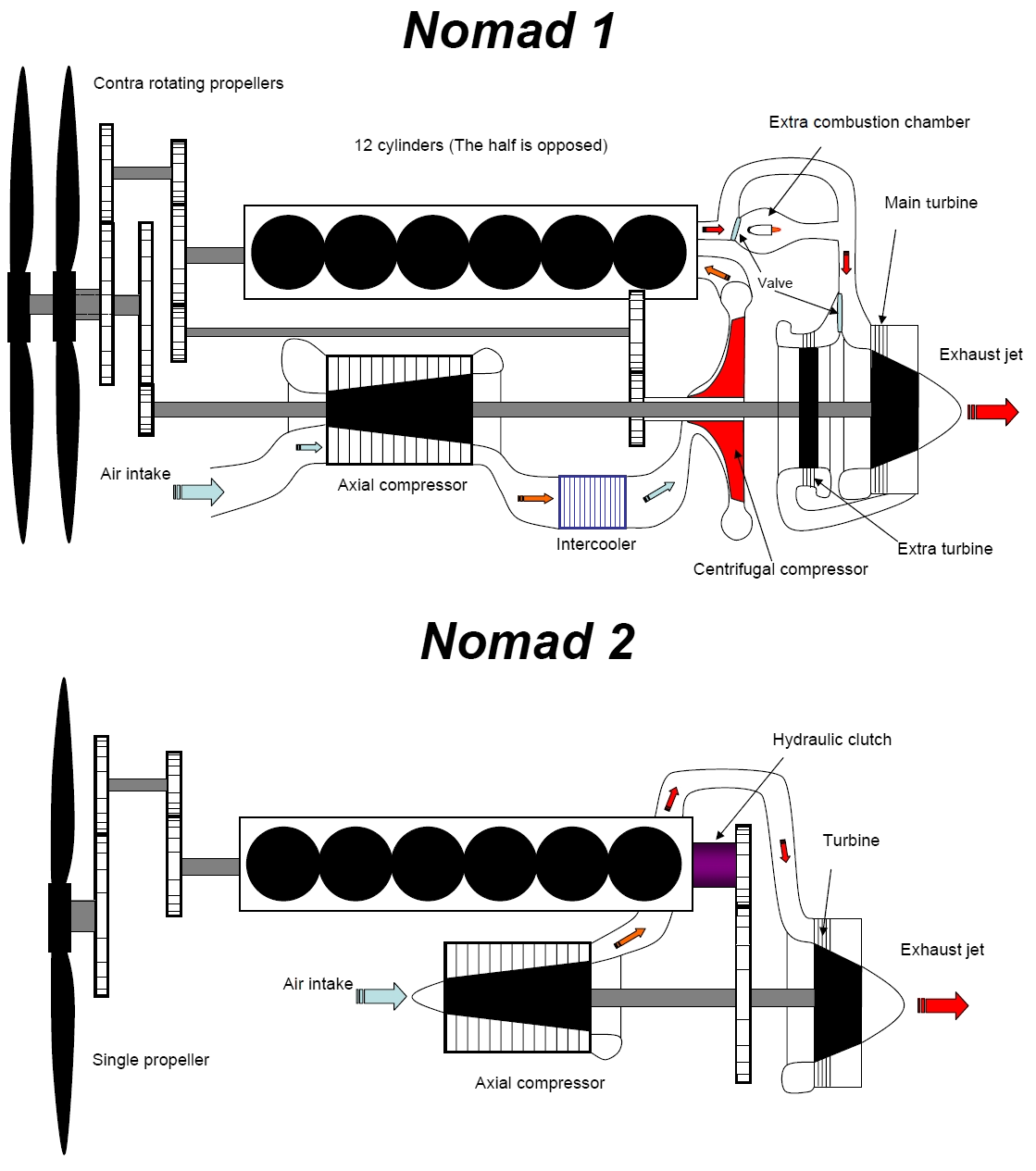 Working layout of the Nomad1 and Nomad2 engines.